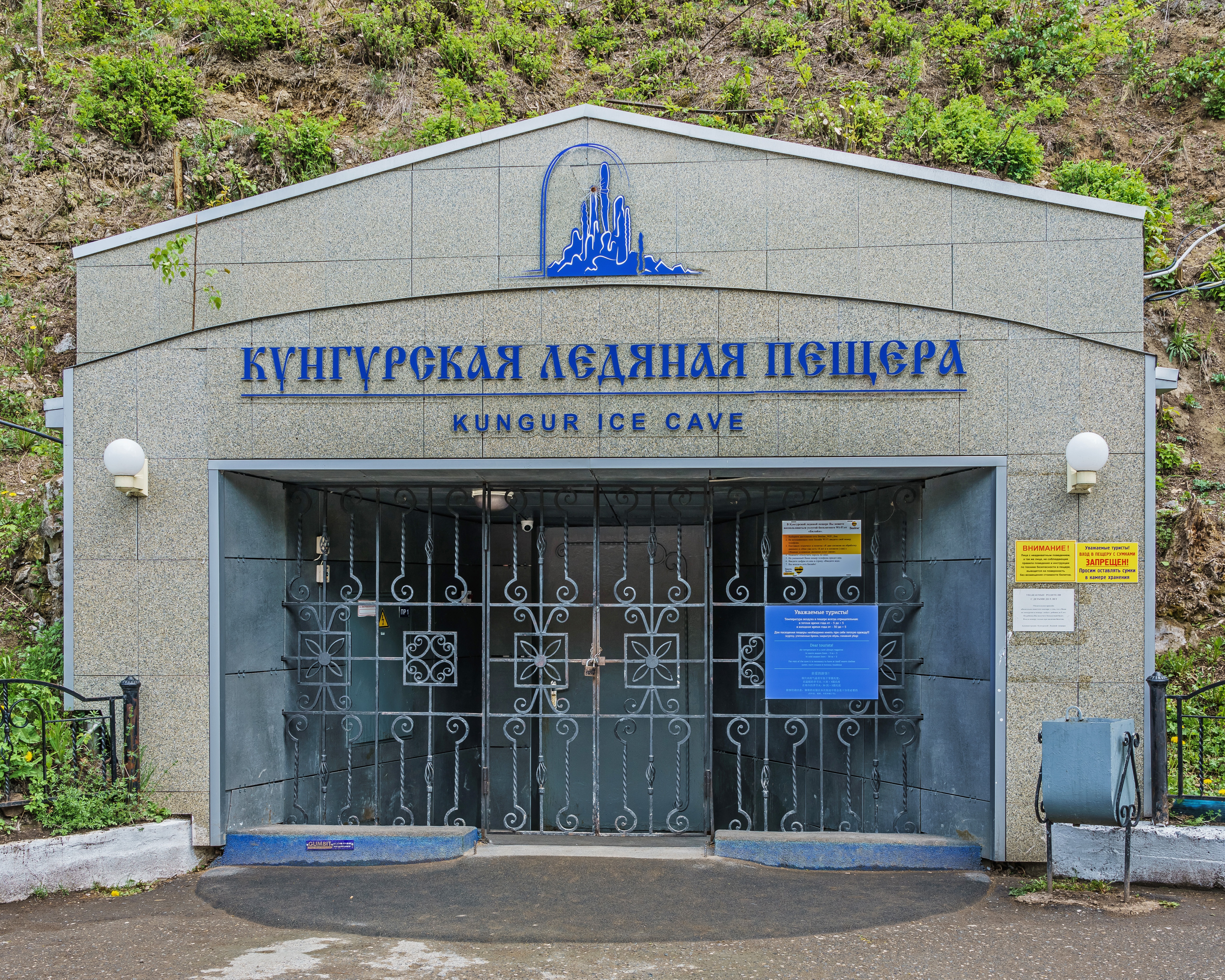 Visitor's entrance of the Ice Cave in Kungur, Perm Krai, Russia